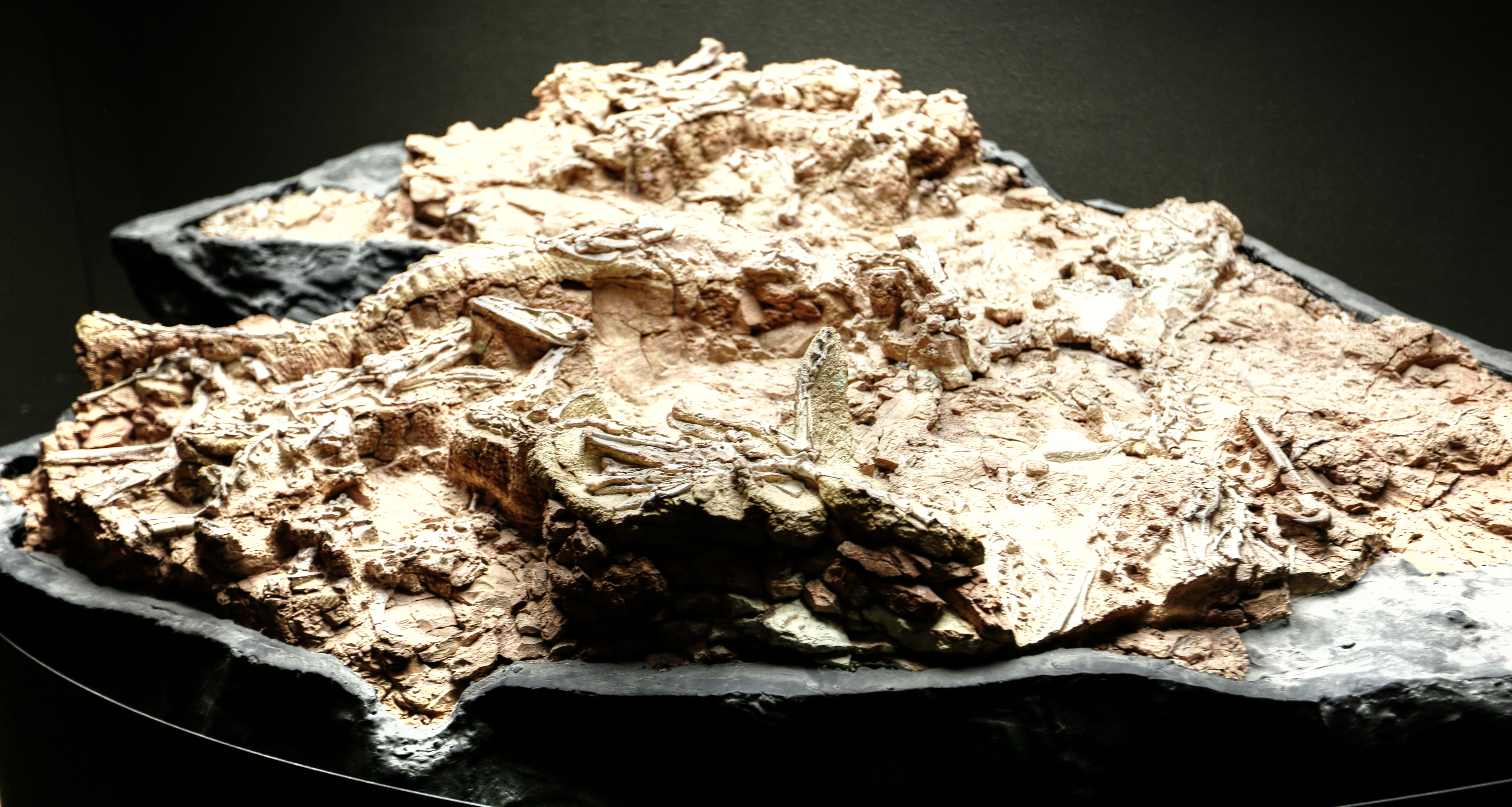 Family visiting museum.